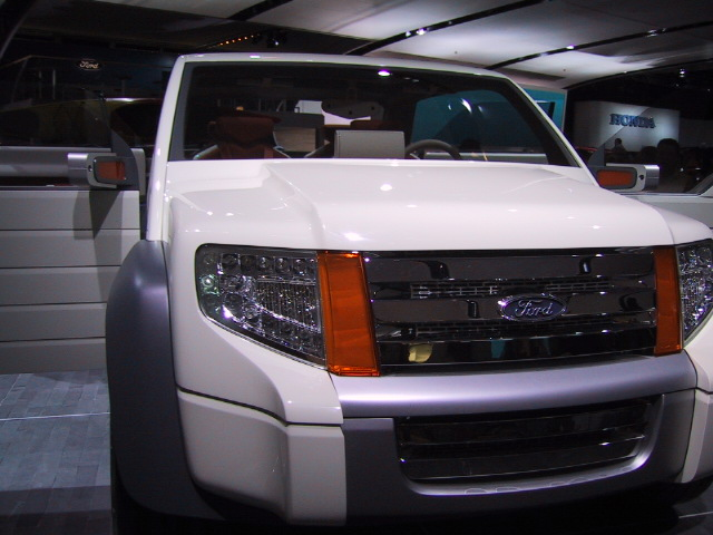 Ford Model U at 2003 Detroit Auto Show.